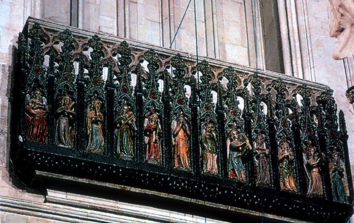 DATES TO AROUND 1360 AND IS UNIQUE IN ENGLISH CATHEDRALS. ITS FRONT IS DECORATED WITH 12 CARVED AND PAINTED ANGELS PLAYING MEDIEVAL MUSICAL INSTRUMENTS